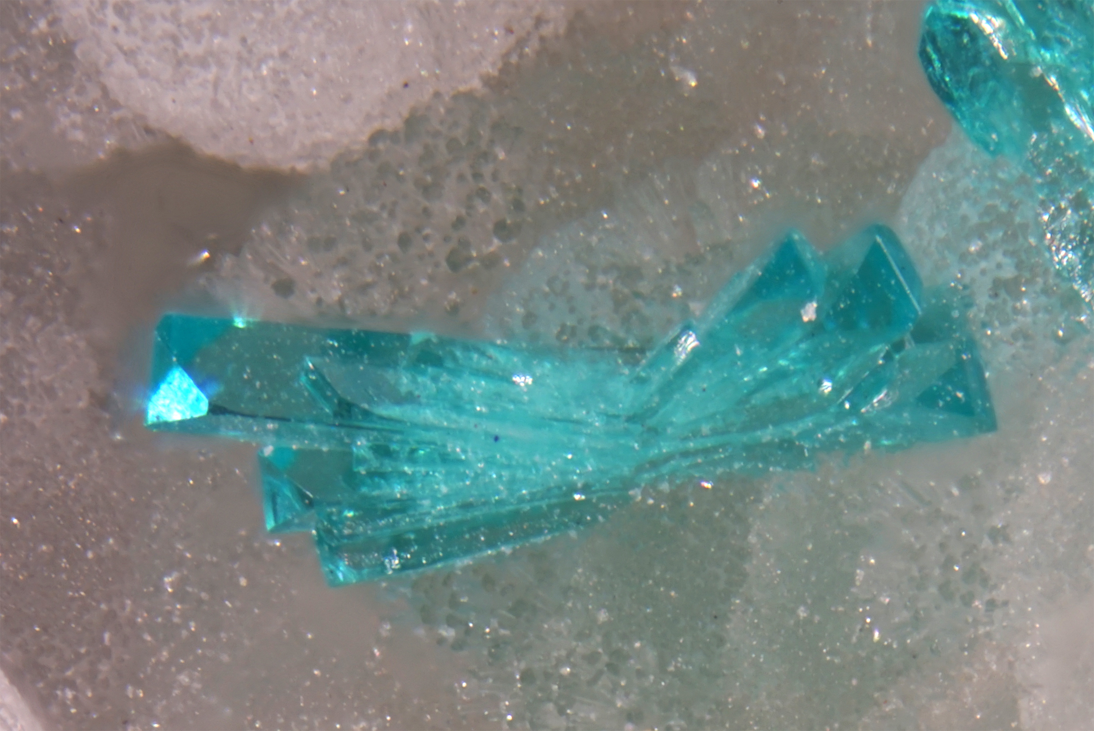 Zincolibethenite microcrystals (1 mm) on fluorapatite. Tita mine, Vaga de Tirados, Salamanca (Spain) Col. M. Calvo. Photo J. Callén